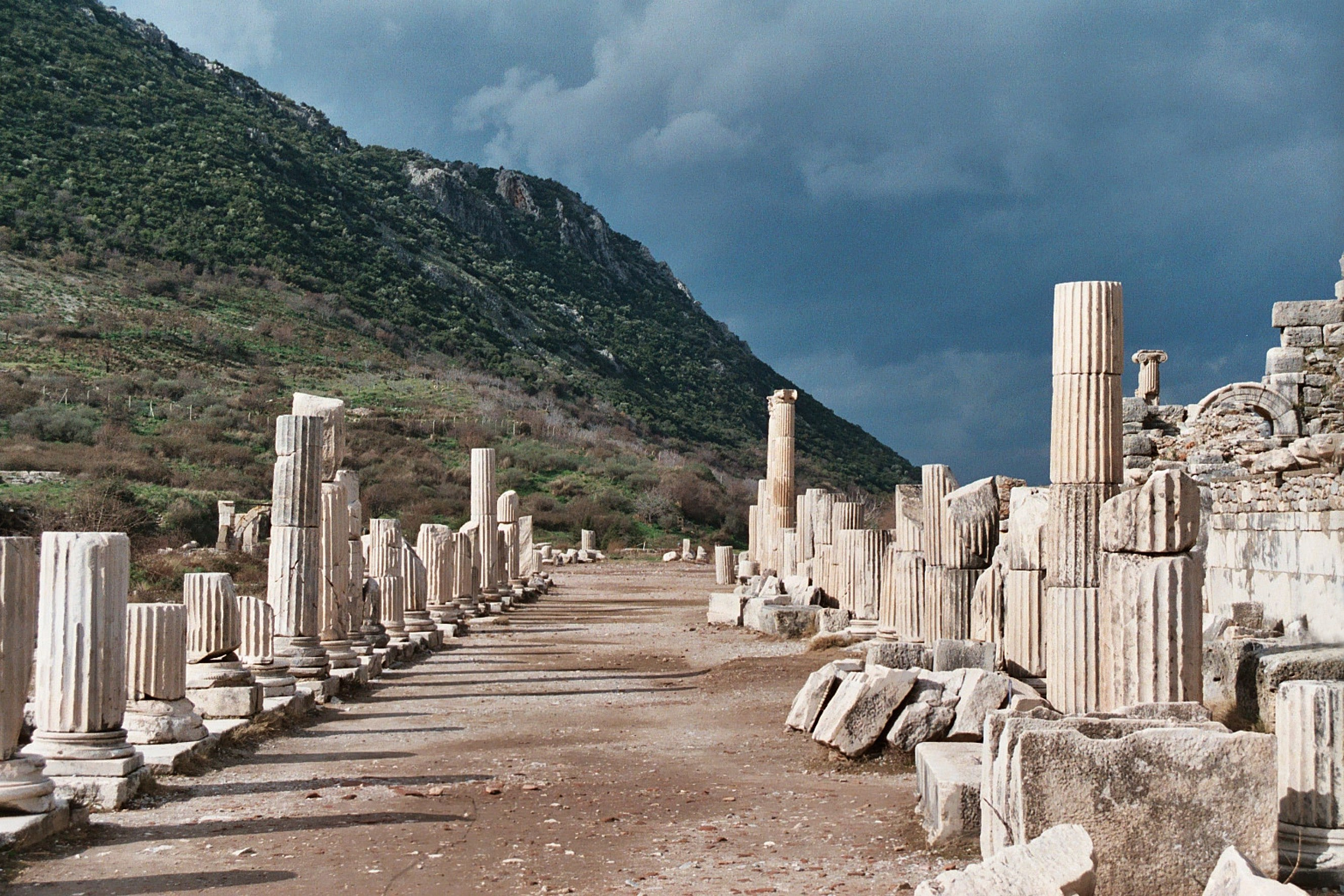 Ephesus, the Weststreet of the Agora